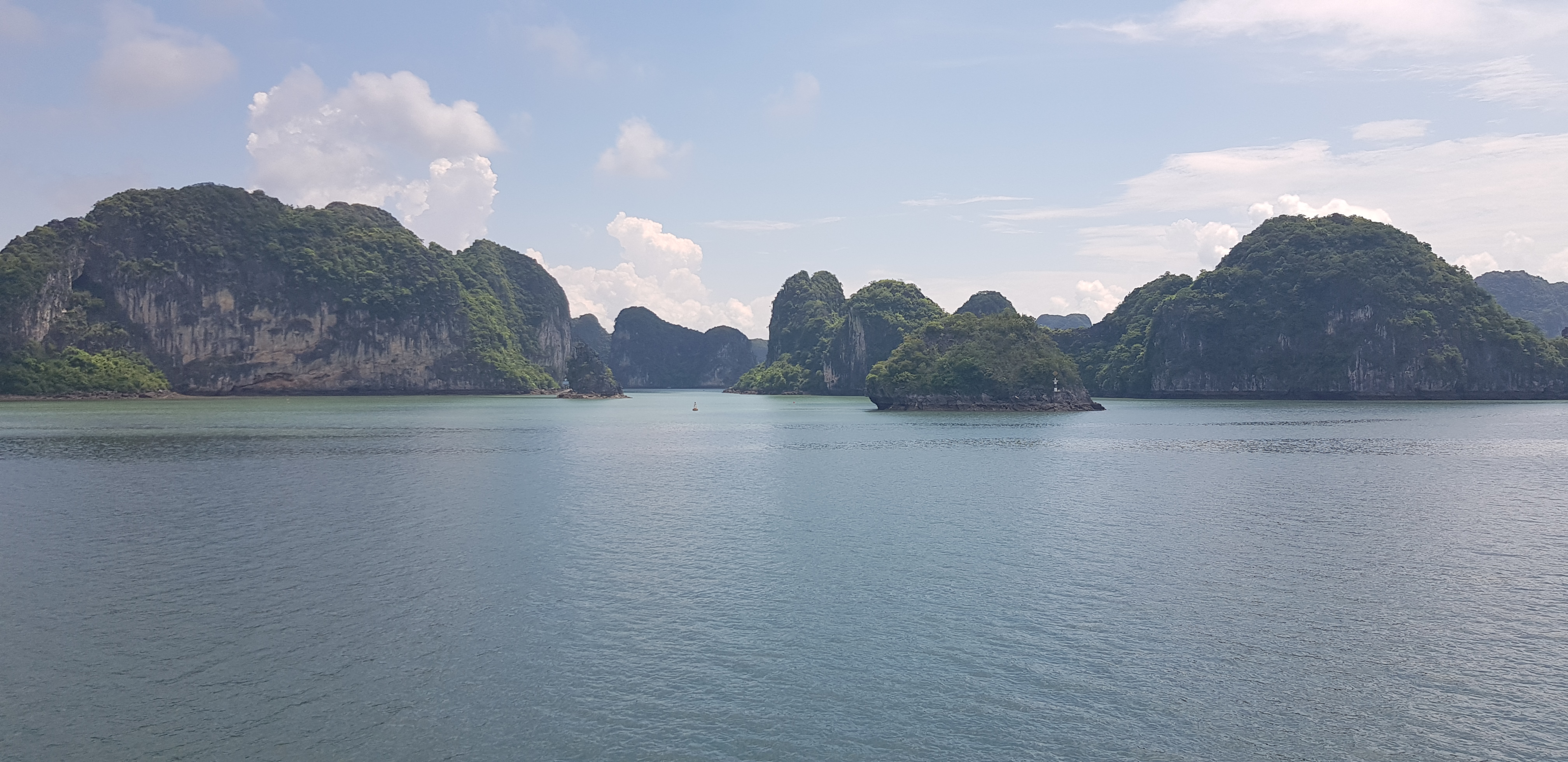 View of Halong Bay